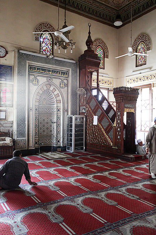 Mihrab and minbar of the el-'Arif Mosque, Sohag, Egypt